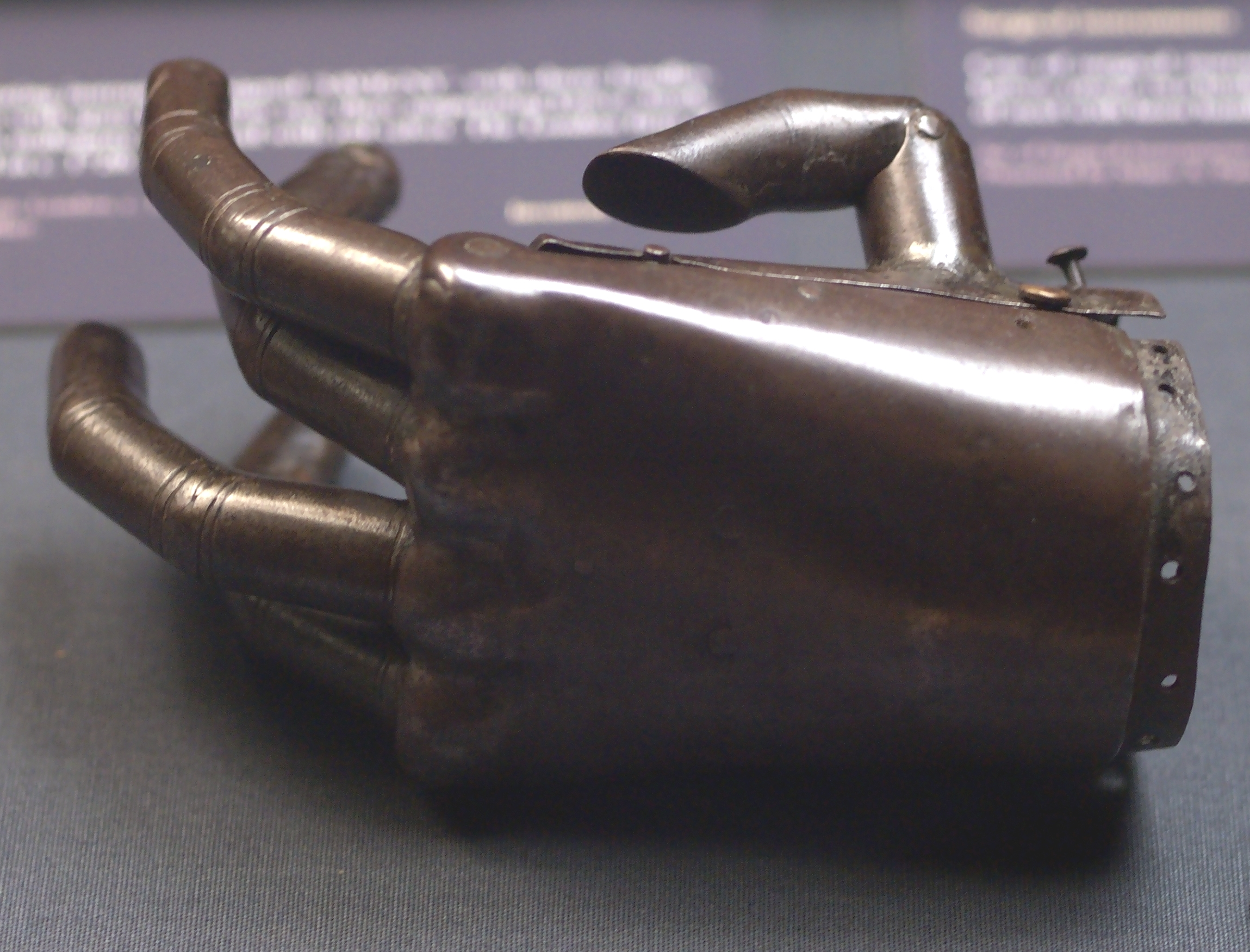 Artificial hand (prosthesis), 16th century. Oxford University Museum, inventory number 43156.